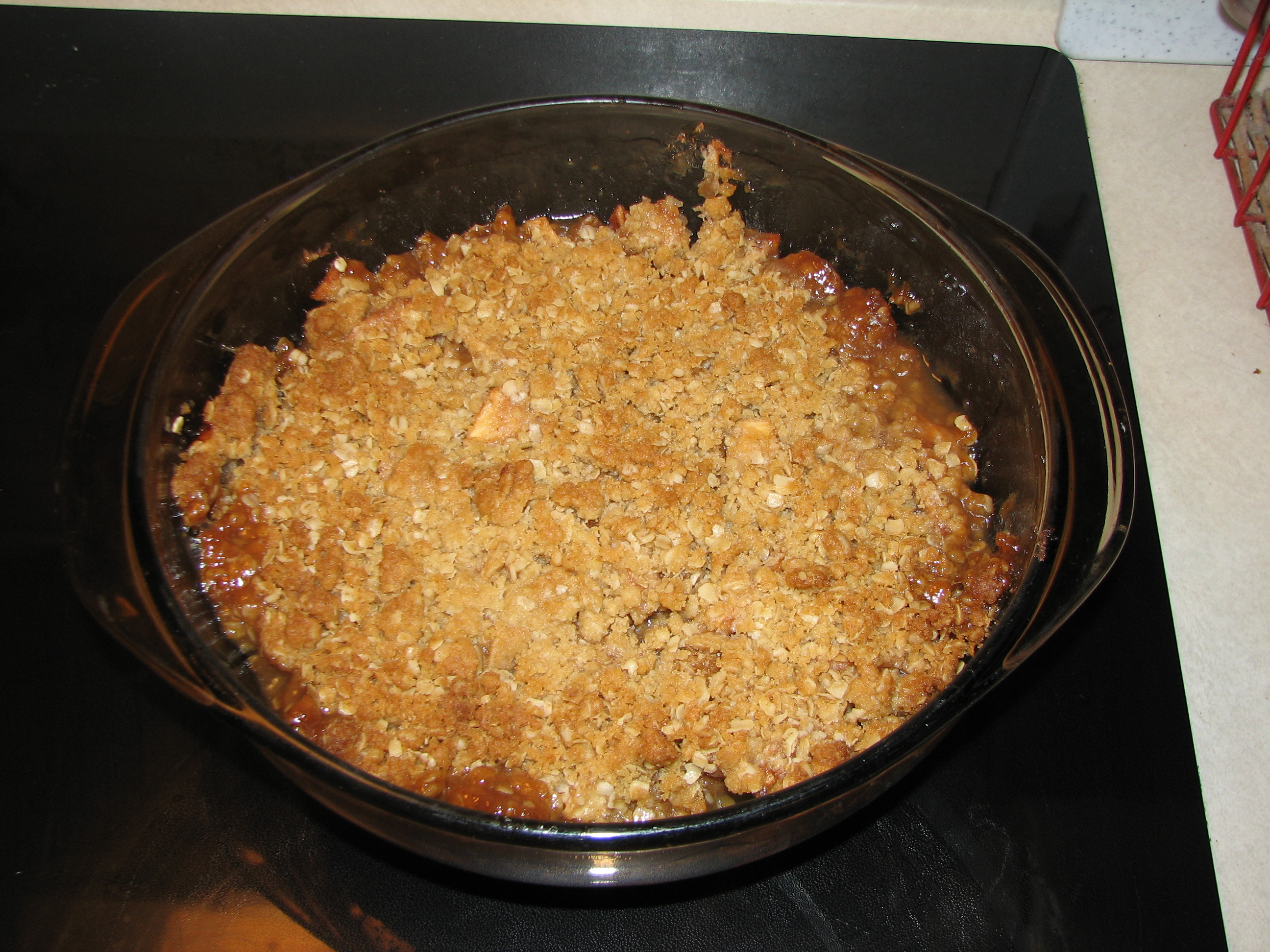 An apple crisp kind of recipe (called "Apple Goodie") comprised of baked apples with brown sugar/oatmeal as the crisp topping.